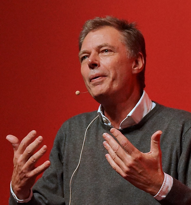 Klaus Riskær Pedersen - Danish economic entrepreneur and businessman at the Copenhagen Book Fair "BogForum 2014", Copenhagen, Denmark